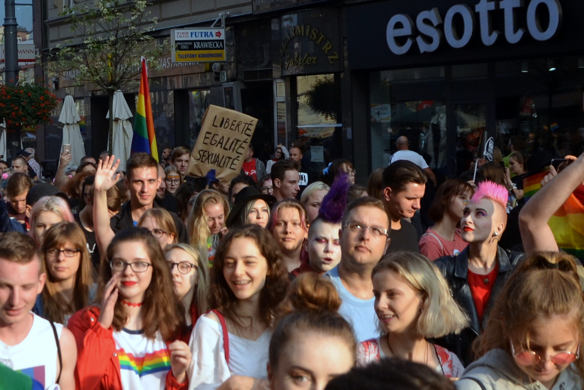 Egalité! Liberté! Sexualité! 2018, Katowice